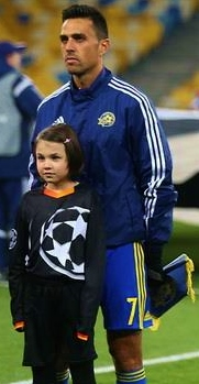 Eran Zahavi